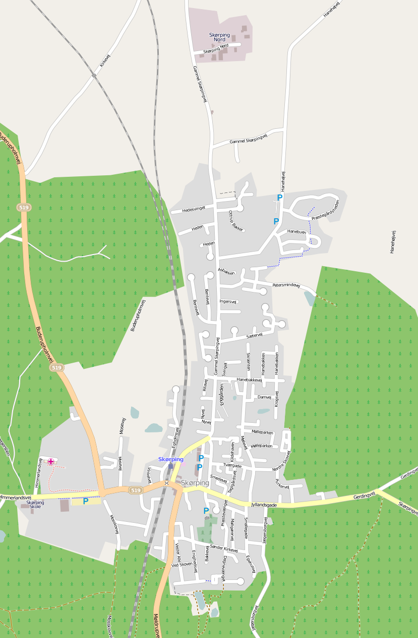 Map of city Skørping This map may be incomplete, and may contain errors. Don't rely solely on it for navigation.